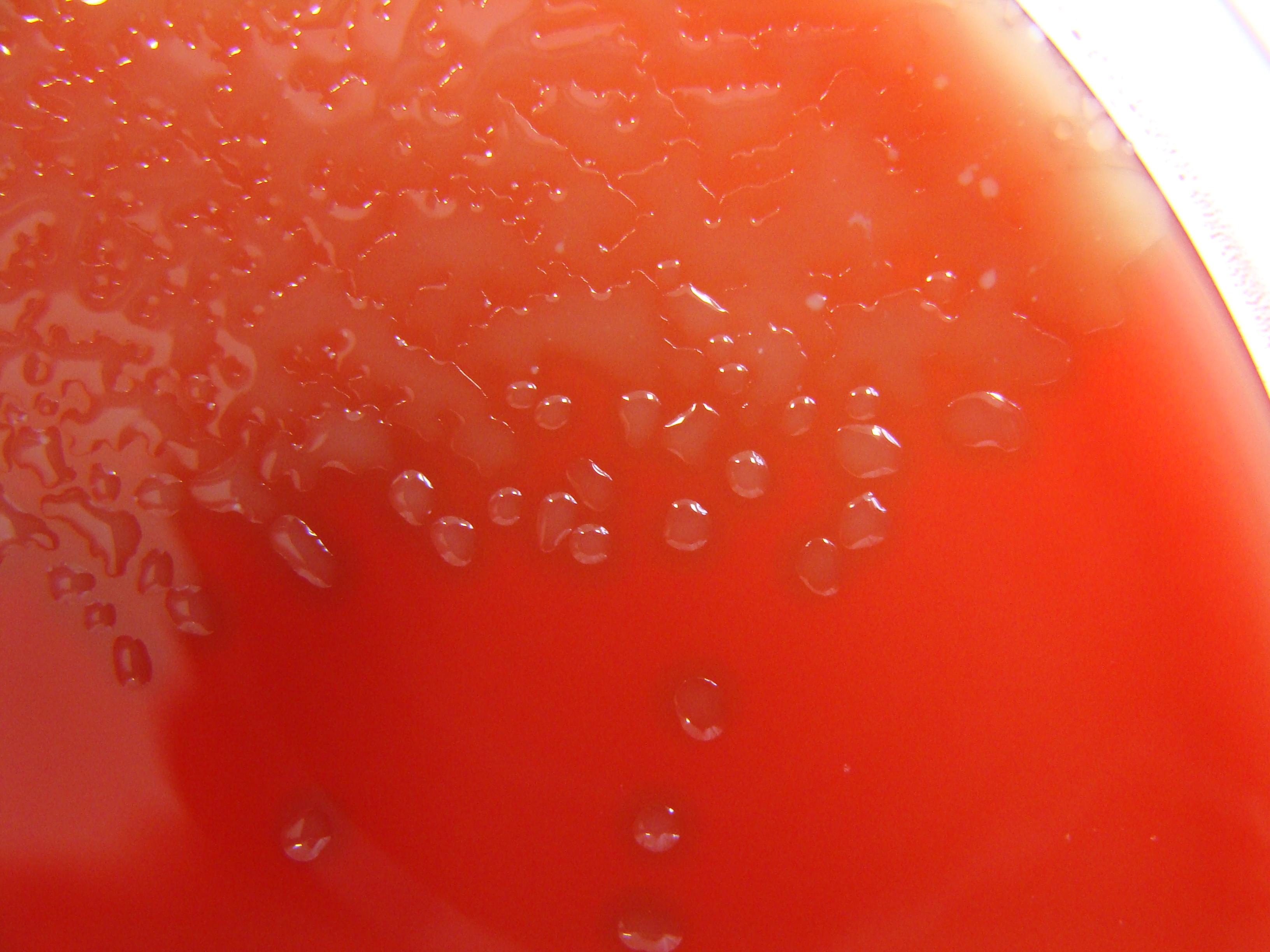 Streptococcus pneumoniae growing on Columbia agar supplemented with Horse Blood. Alpha haemolytic. Mucoid strain isolated from the conjunctiva of a six week old child.